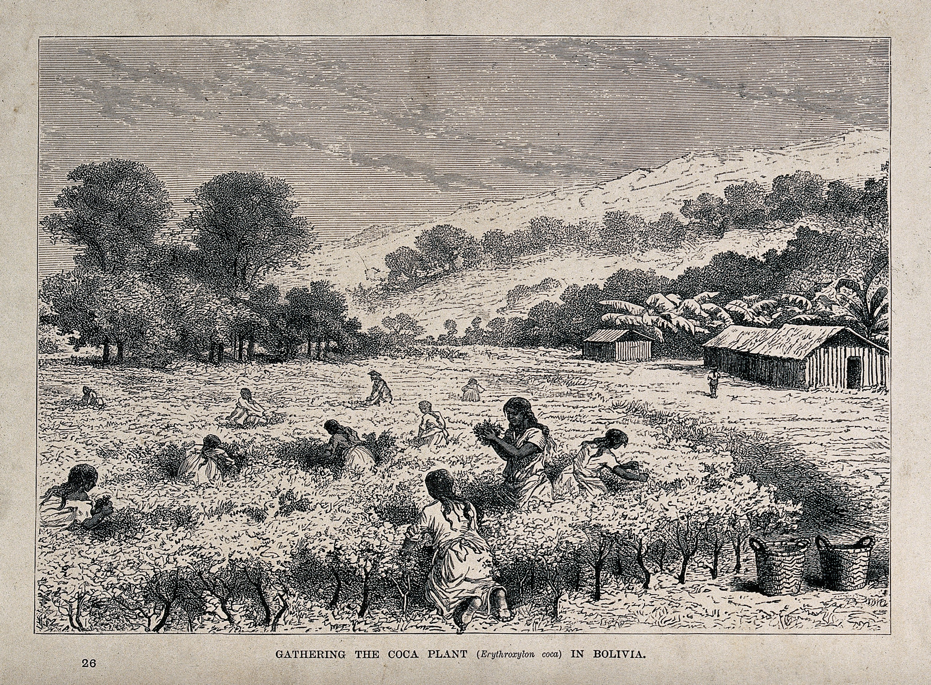 Women gathering leaves of the coca plant (Erythroxylum coca) in Bolivia. Wood engraving, c. 1867. Iconographic Collections Keywords: Henry Walter Bates; Opium